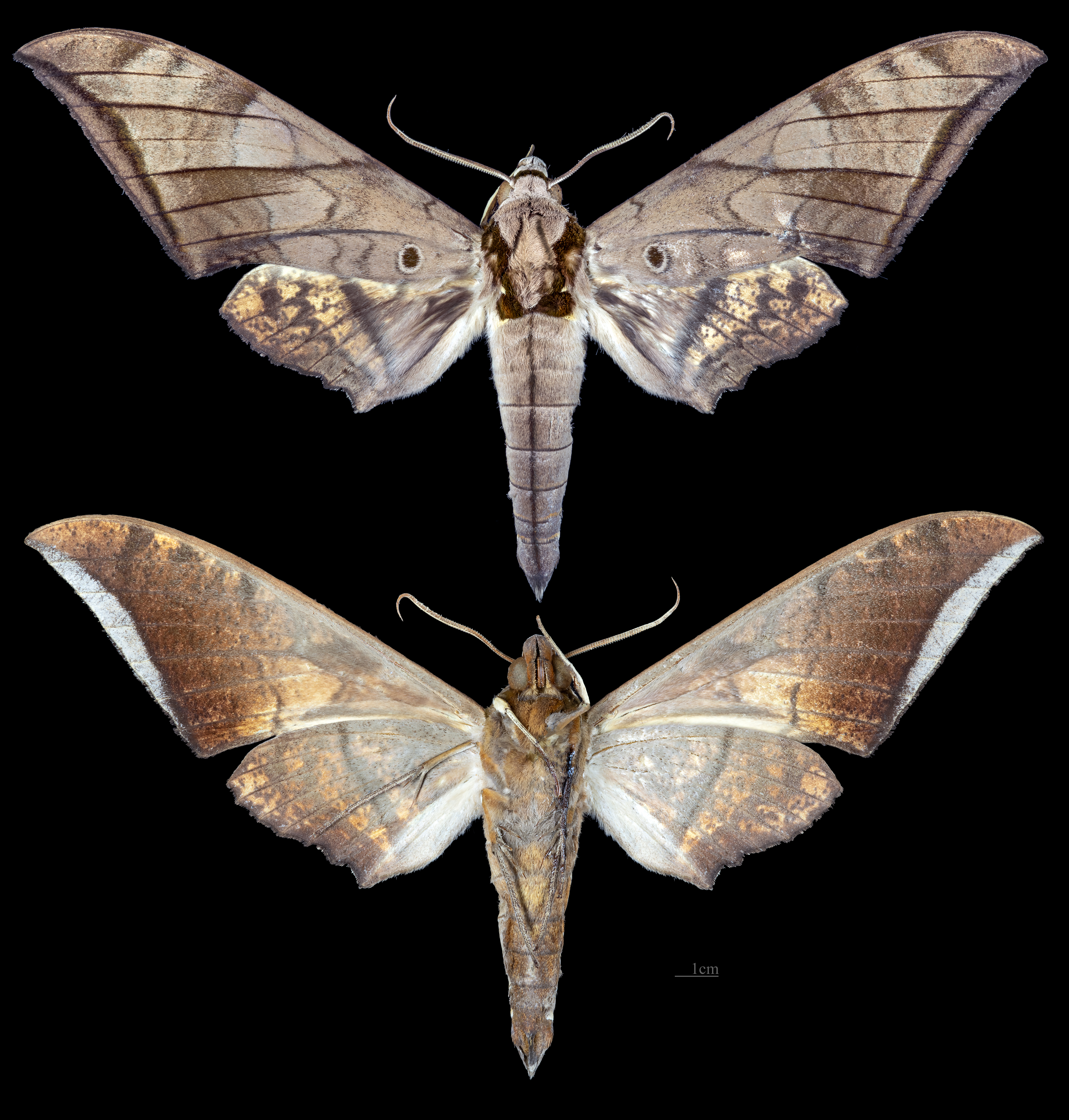 Ambulyx phalaris - Two views of same specimen Collection of the Mathematician Laurent Schwartz